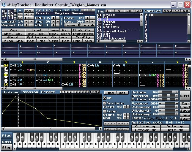 Screenshot of MilkyTracker showing instrument editor